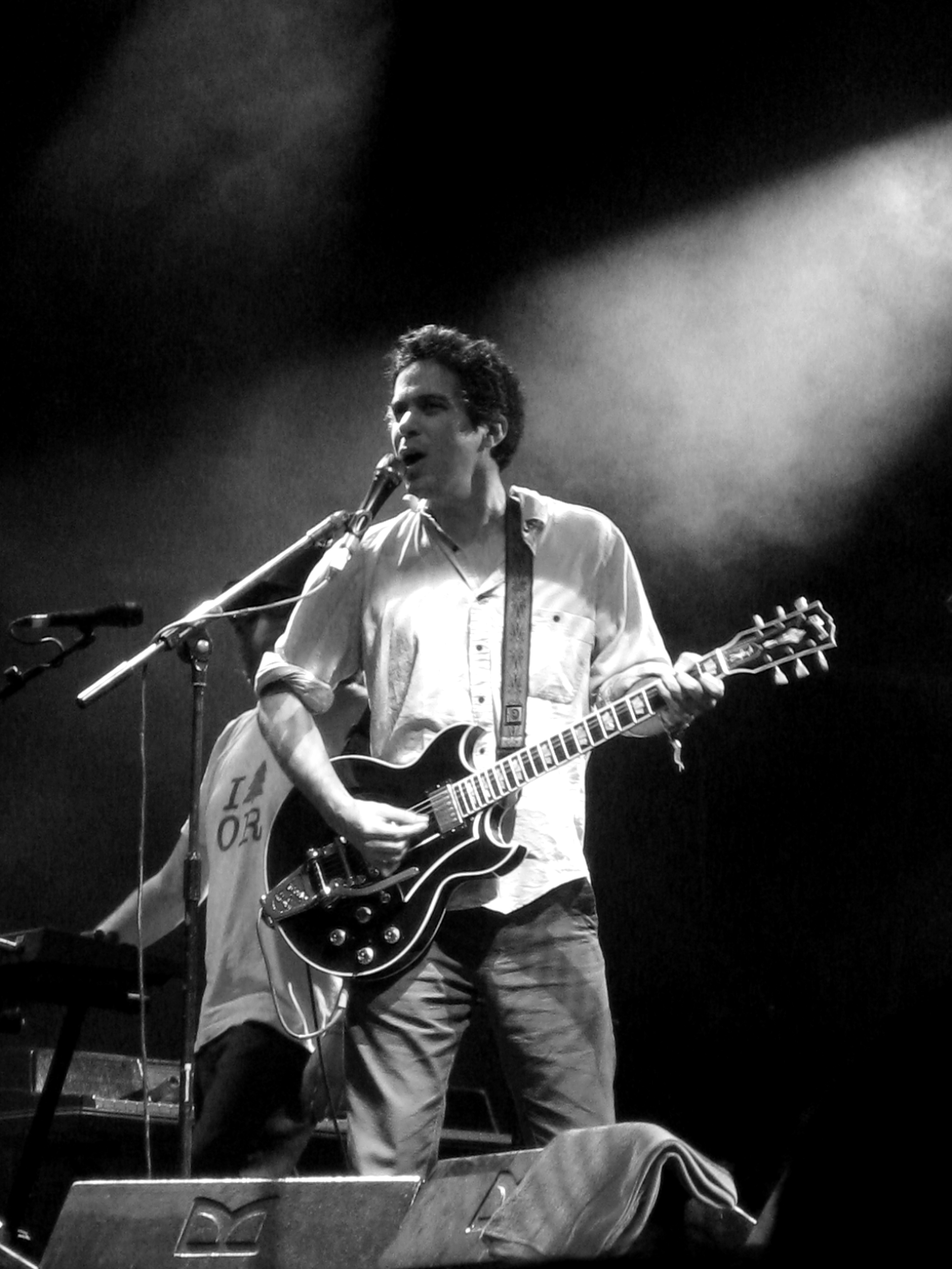 M. Ward performing live at the Glastonbury Festival, 27th June 2009.